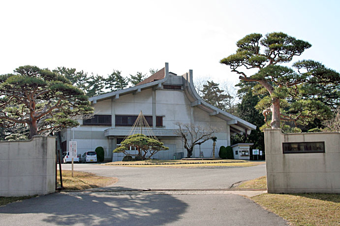 Homma Museum of Art (Sakata City, Yamagata Prefecture, Japan)